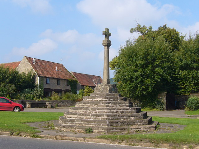 Top Cross One of two crosses in the village(Top Cross and Bottom Cross),the top cross having a rare seven sided base.